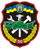 Shoulder sleeve insignia of the 50th Repair and Recovery Battalion of the Ukrainian Army